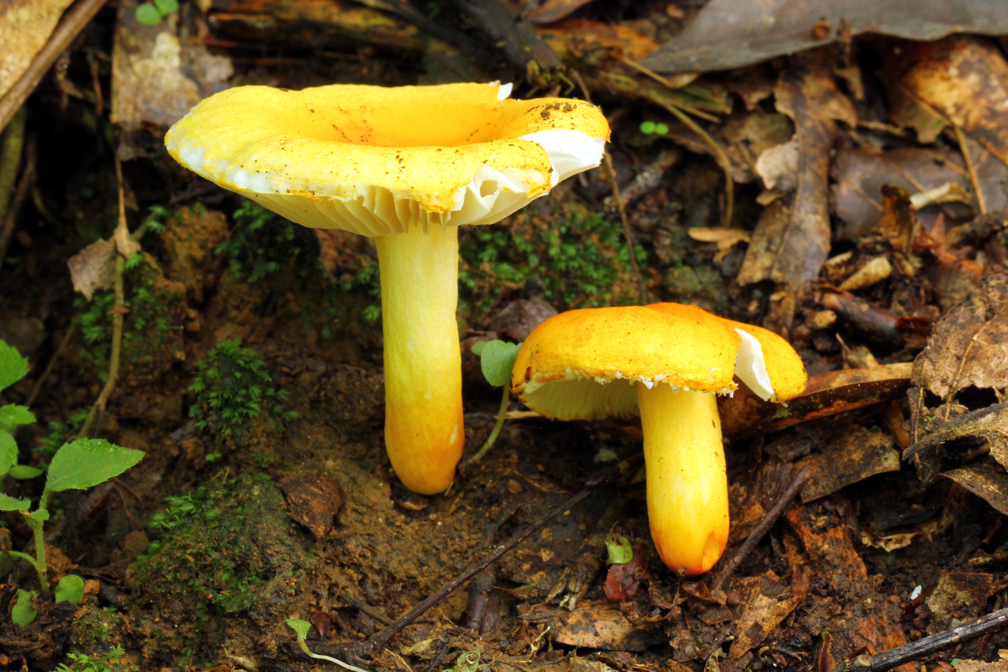 From Seen in Xalapa, Veracruz, Mexico.